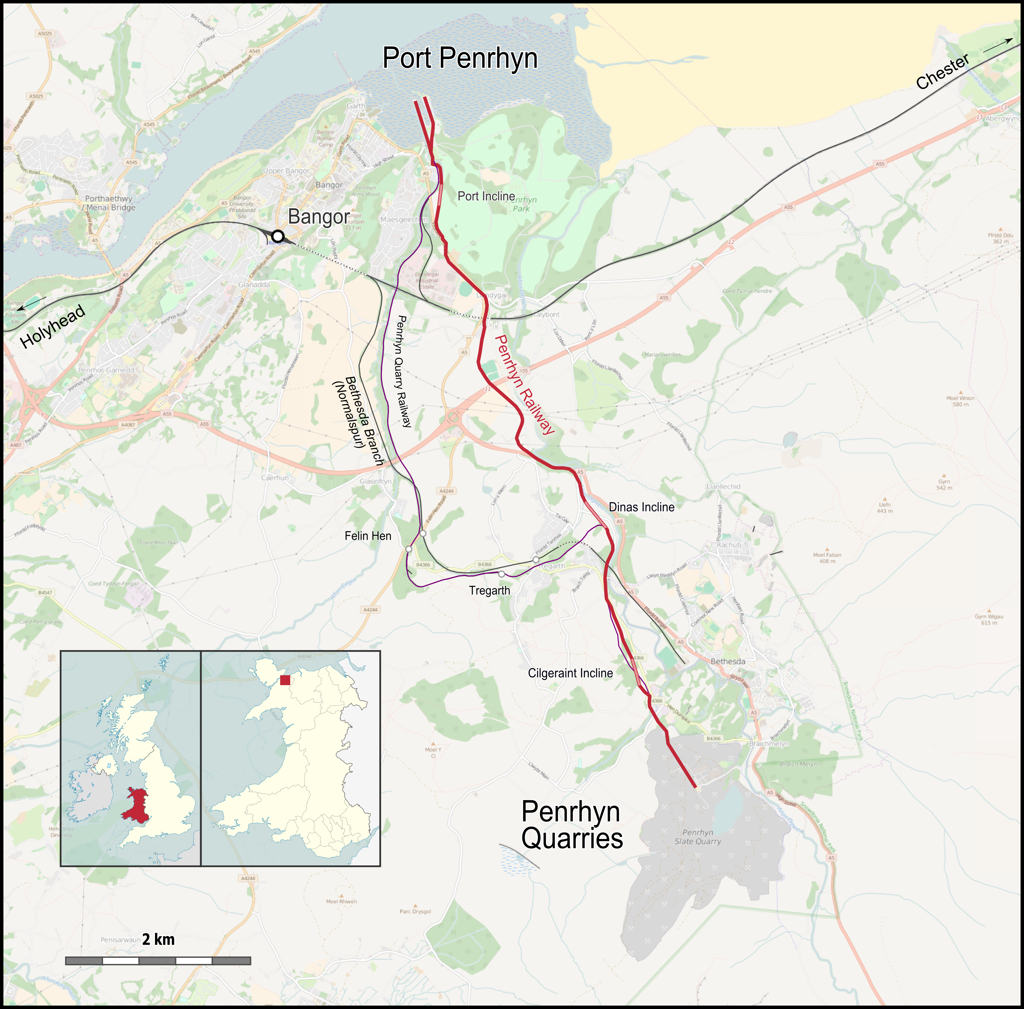 Map of Penrhyn Railway